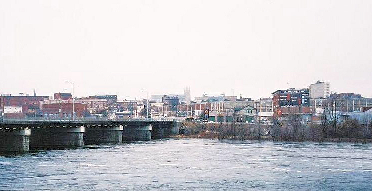 Lewiston, Maine ==Source took myself 2004 If moved by bot, please review and clean up as necessary before marking image move OK here.